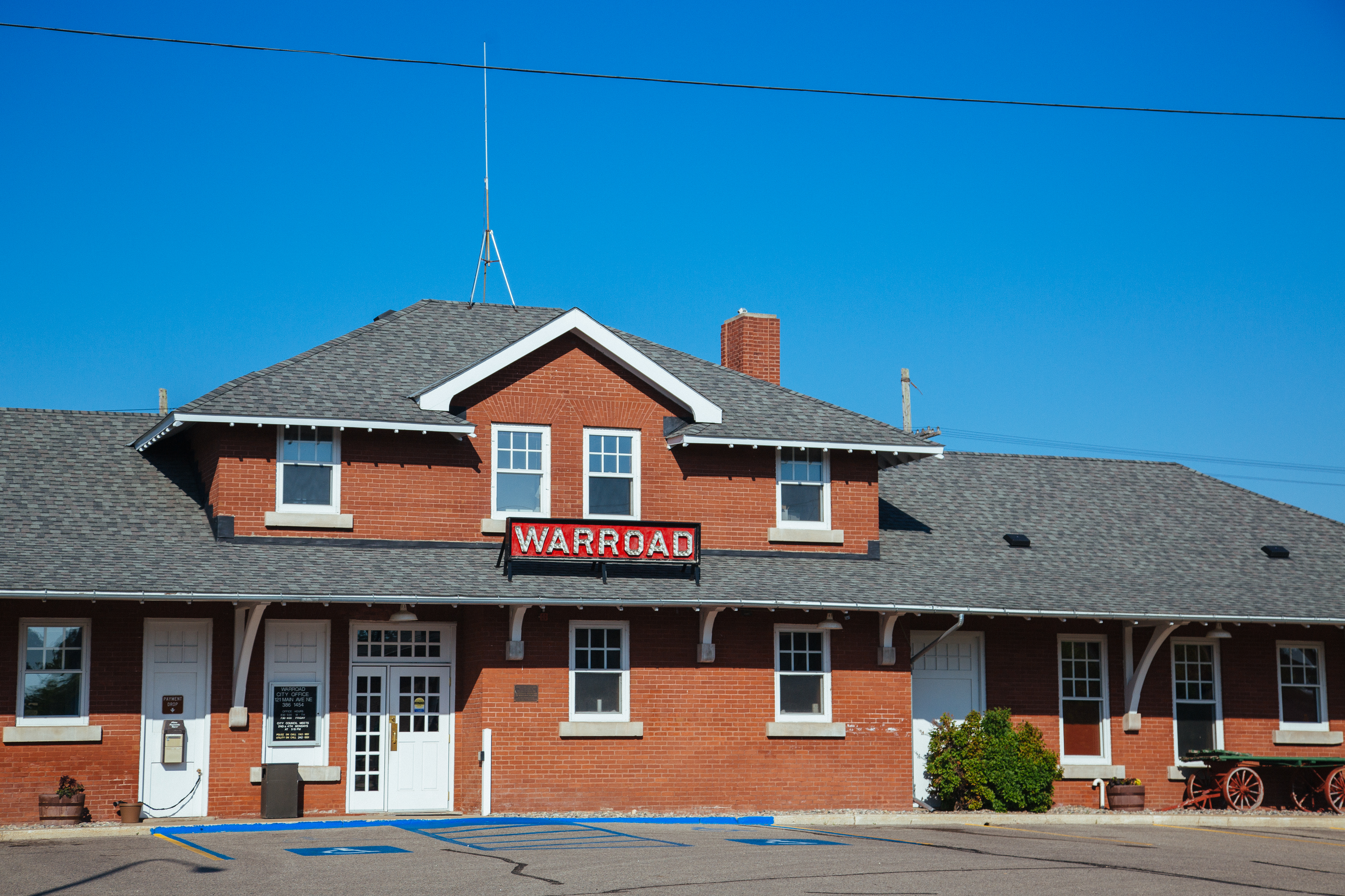 Former Canadian National Railway station in the city of Warroad, Minnesota